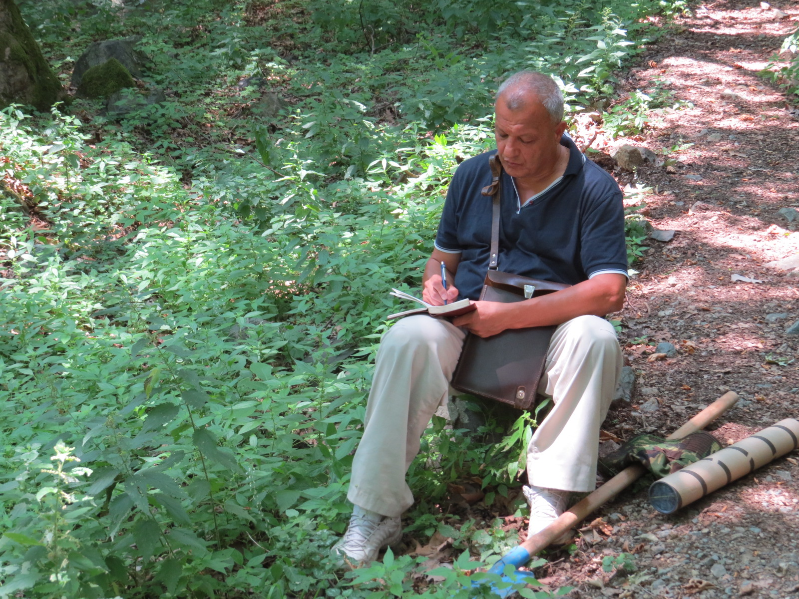 Bulgarian geographer Nikola Todorov